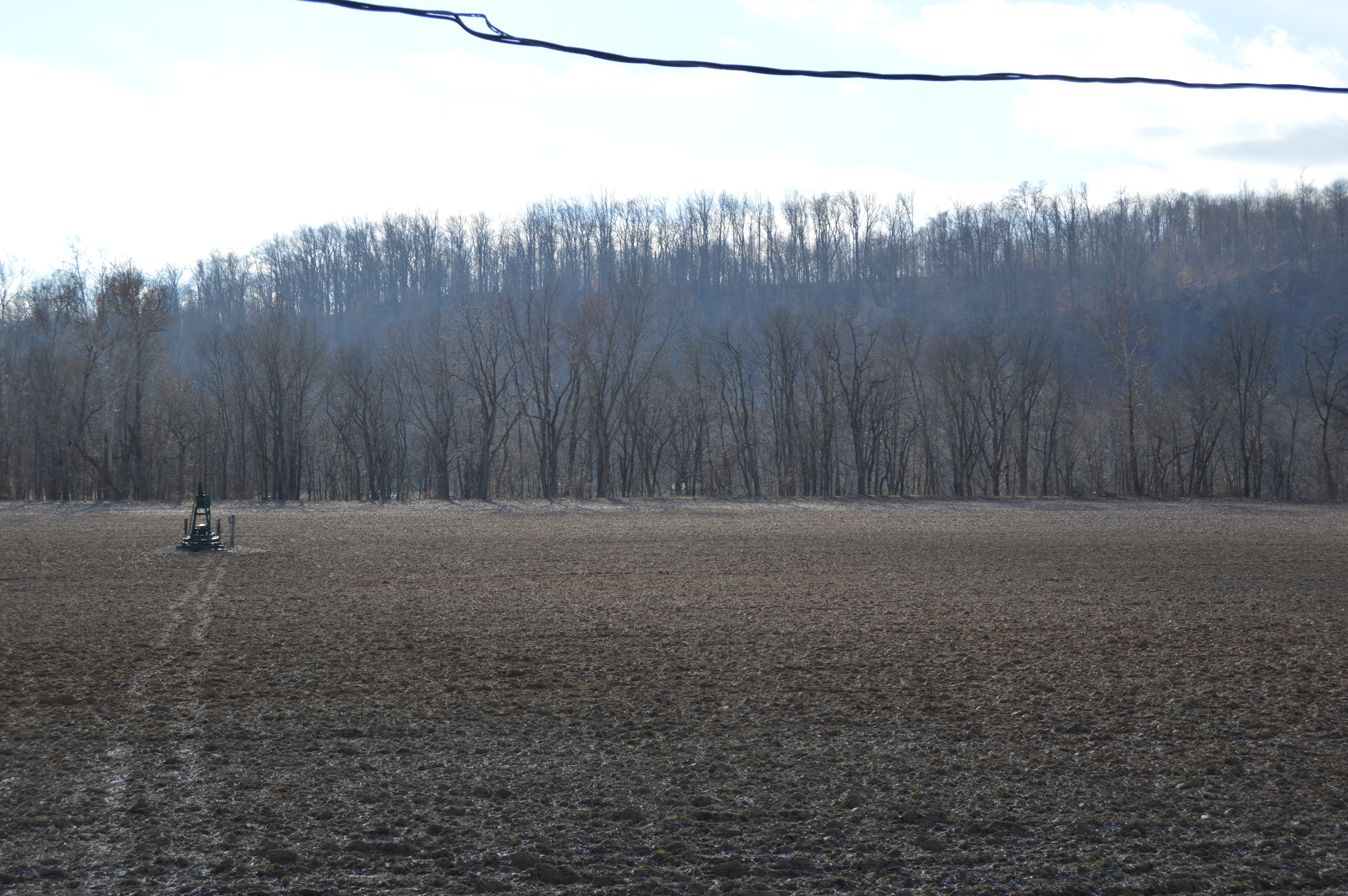 Looking south from State Route 715 west of Warsaw in Jefferson Township, Coshocton County, Ohio, United States. The tree line in the distance is the old Walhonding Canal, and the photo looks toward the Walhonding Canal Lock No. 9, which is listed on the National Register of Historic Places.